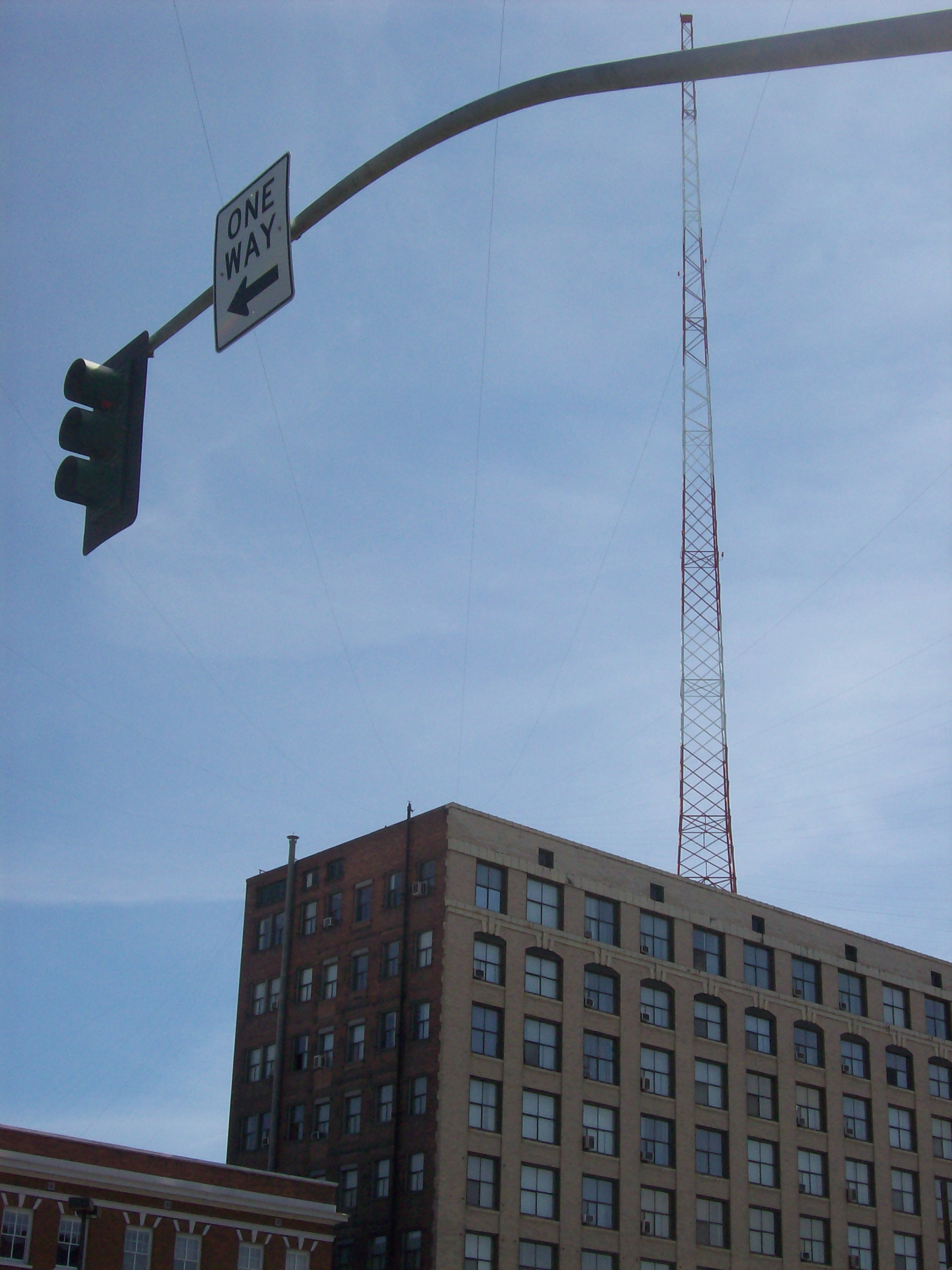 The broadcast tower for KSBN, Spokane, Washington. This is a rare AM radio broadcast antenna atop a building in an urban area. Radiating out from the top of the building are counterpoise wires, necessary for AM transmitters that don't touch the ground.